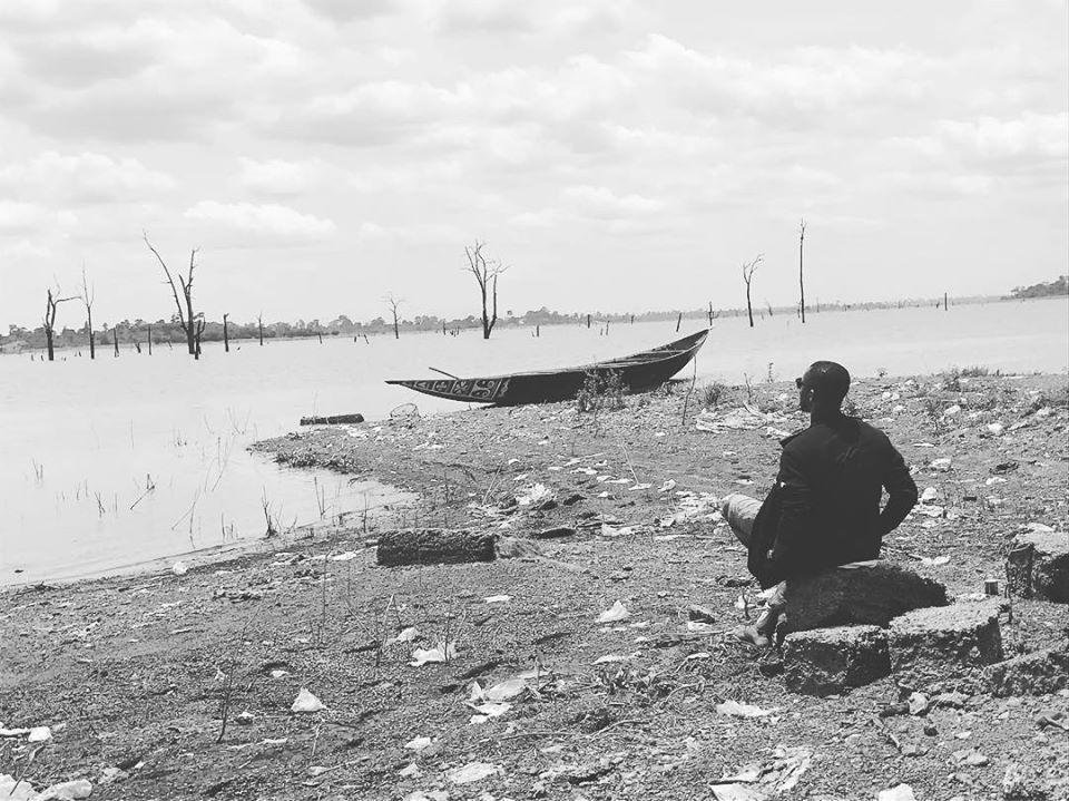 This is an image with the theme "Africa on the Move or Transport" from: Ivory Coast